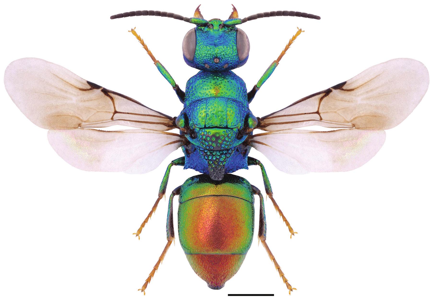 Female Elampus panzeri with 1 mm scale.